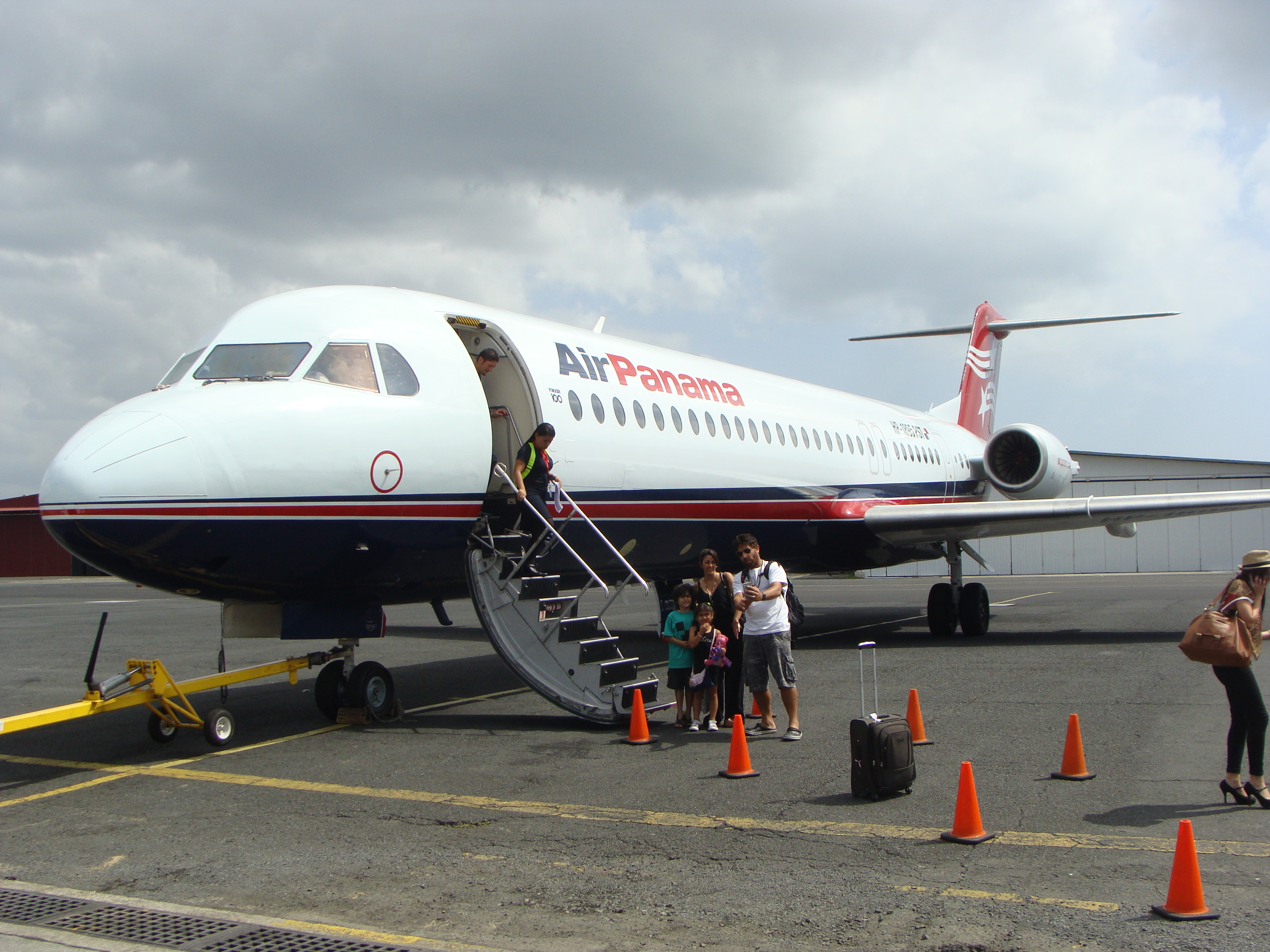 An Air Panama Fokker F-100 standing at Albrook - Marcos A. Gelabert International Airport, while a group of passengers board the aircraft.